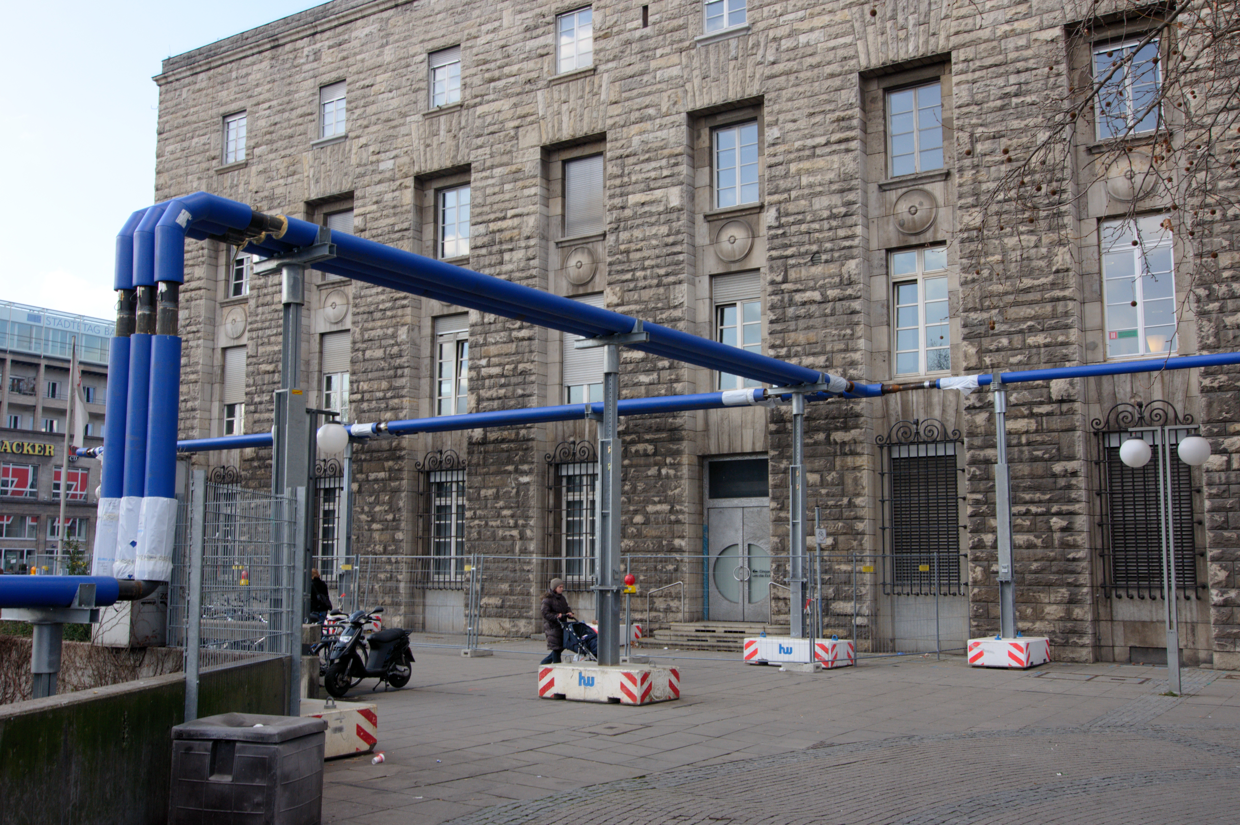 Stuttgart 21, pipes for ground water management on main station's southeast corner Unknown